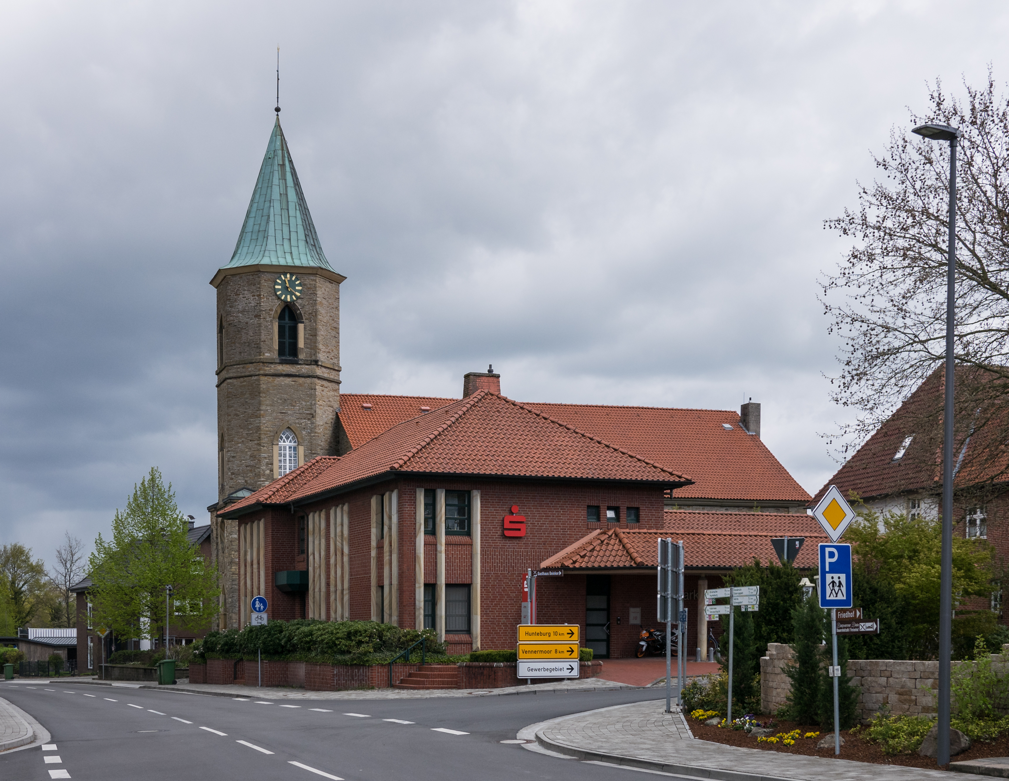 Venne hamlet of Ostercappeln, Lower Saxony, Germany